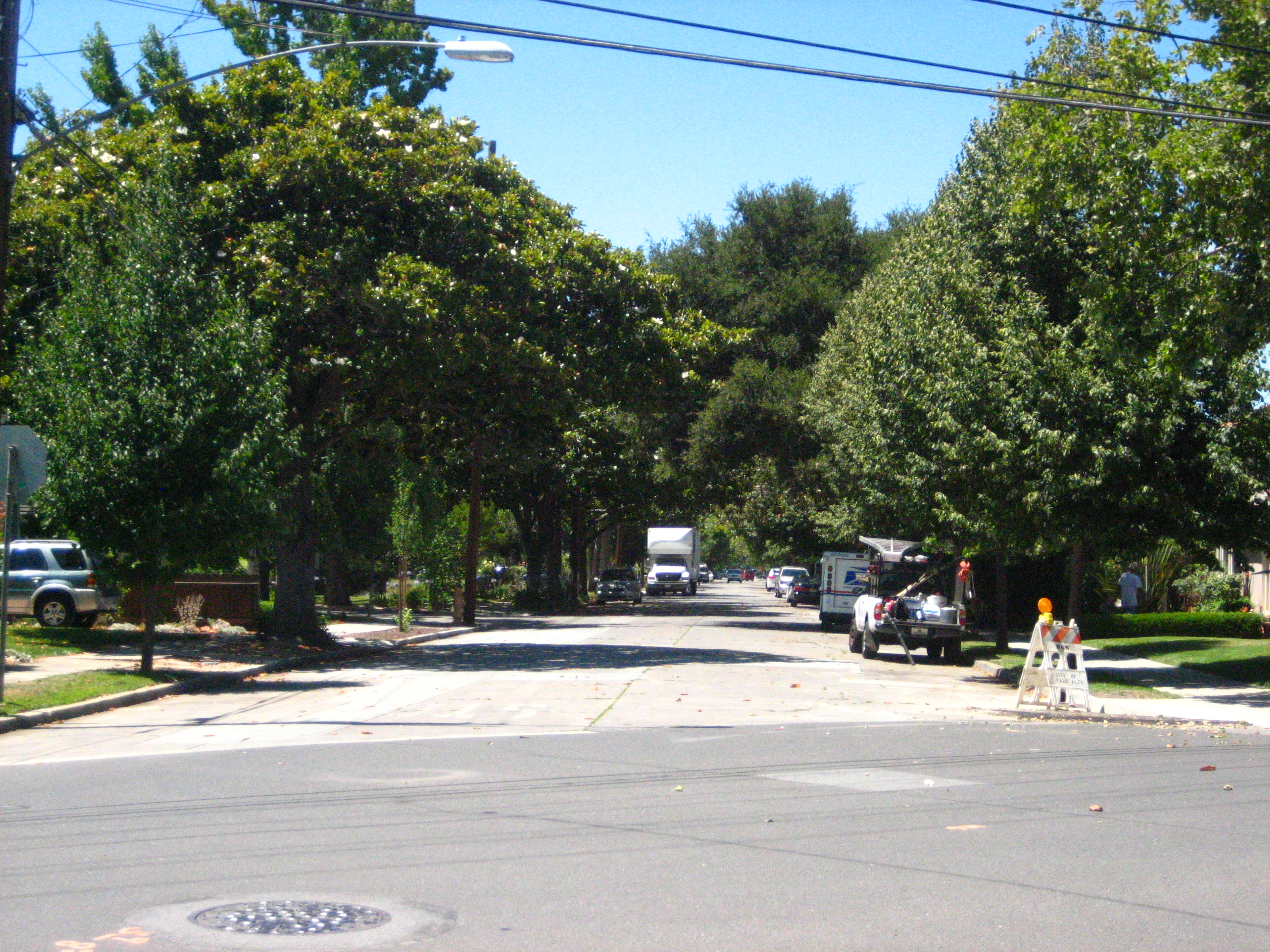 Guinda Street in Palo Alto, California. Credits Own work, all rights released.